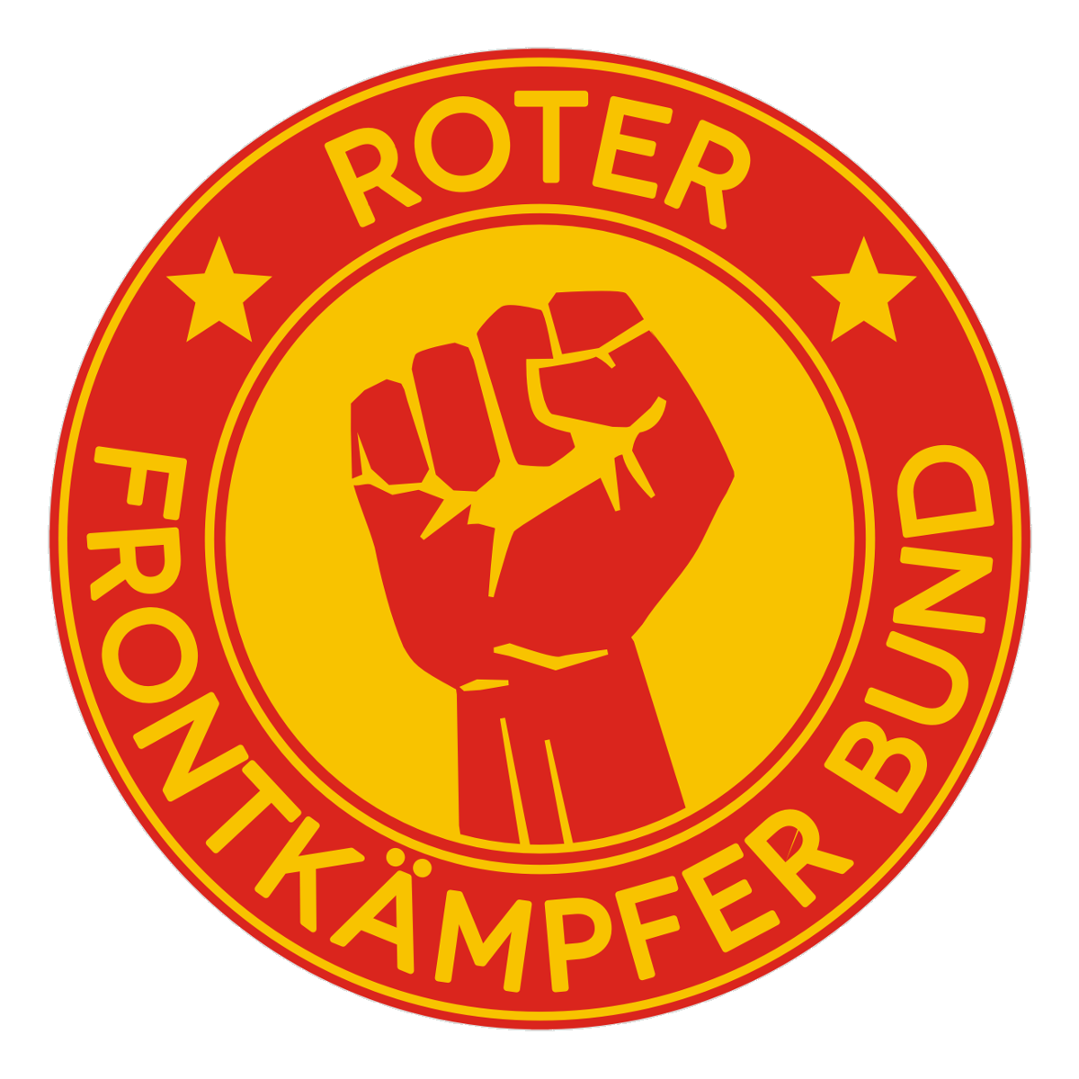 Emblem of the RFB, the Alliance of Red Front-Fighters in Germany during the 1920's (Roter Frontkämpfer-Bund 1924-1929).